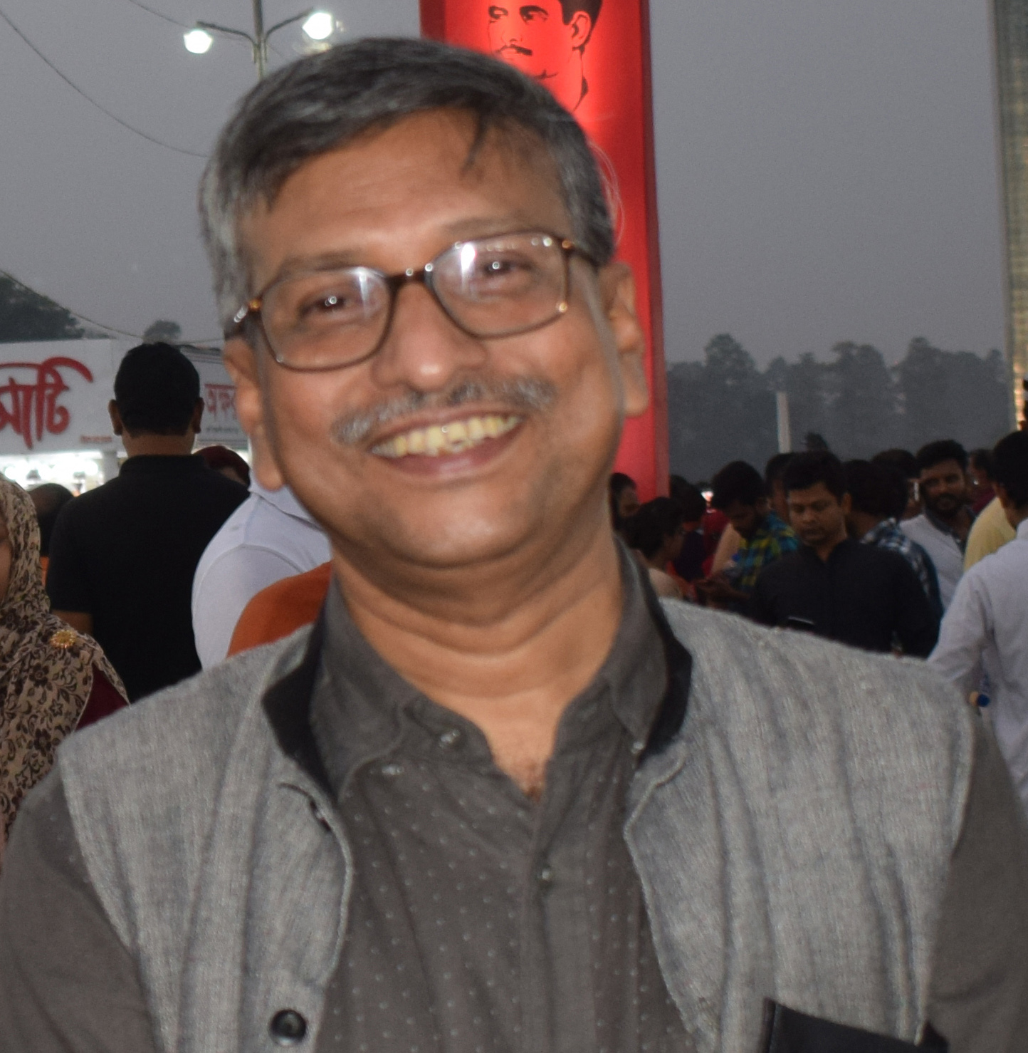 Ratan Siddiqi at Ekushe Book Fair 2019